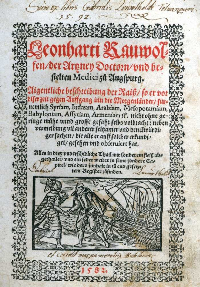 Leonhard Rauwolf (also spelled Rauwolff) (Augsburg, June 21 in either 1535 or 1540 – September 15, 1596, Waitzen, Hungary) was a German physician, botanist and traveller.